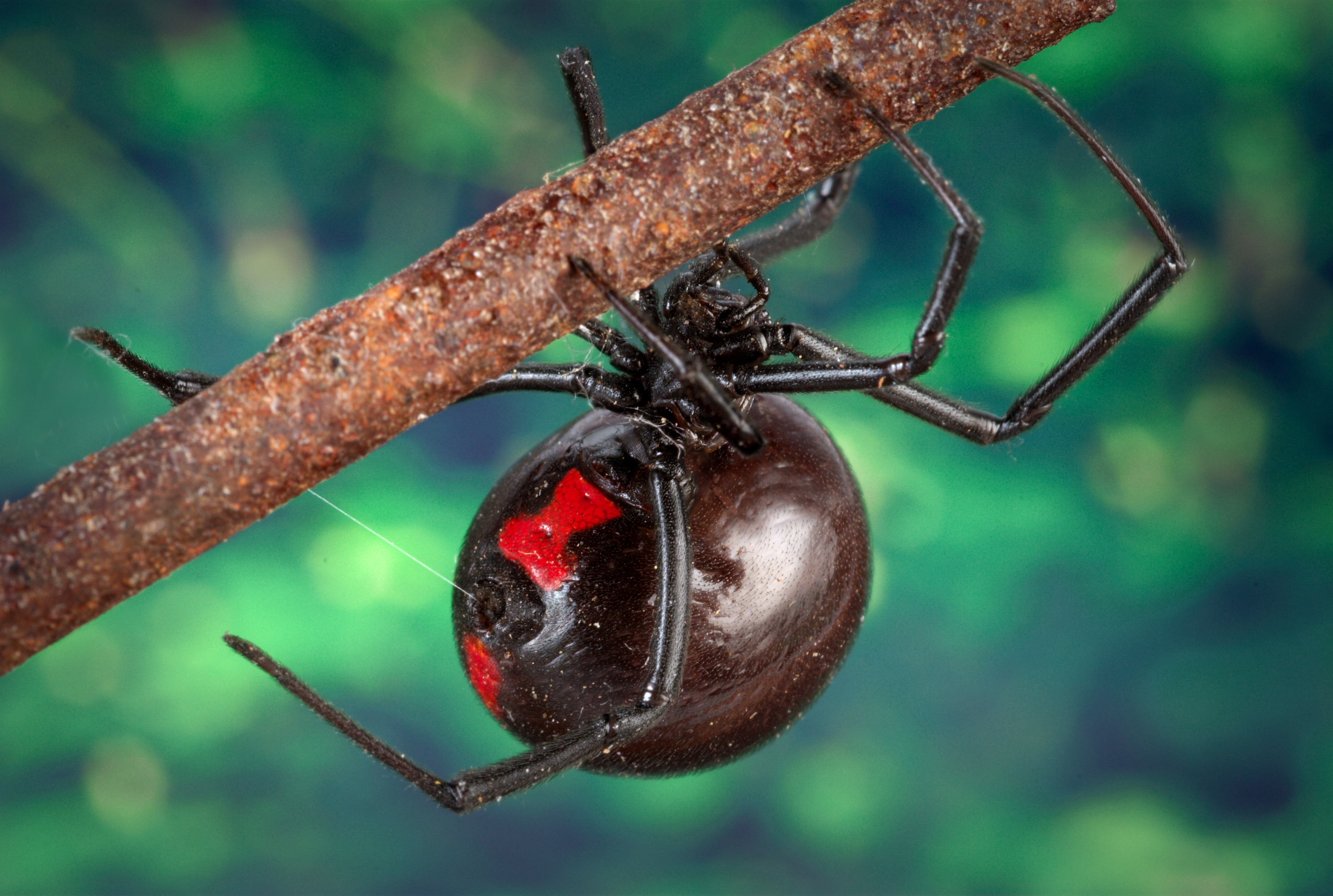 This 2007 photograph, captured by CDC biomedical photographer, James Gathany, depicted a female black widow spider, Latrodectus mactans, as she was in the process of spinning her web upon a tree branch. You’ll note the characteristic red hourglass located on her inferior abdominal surface, which can vary in coloration from yellowish, to shades of orange and red, and at times, can even be white. The female’s body is an overall shiny jet-black in color. This spider was found on a farm, here in the state of Georgia. Spiders are members of the Phylum Arthropoda, and the Class Arachnida. Based on their habitats, the three species of black widow include the southern, L. mactans, northern, L. variolus, and western, L. hesperus. Human beings are bitten not as prey, but when a female spider feels threatened. Females are poisonous, injecting a potent neurotoxic venom, i.e., 15X more potent than that of the rattlesnake, when it bites its victim, while the male L. mactans is harmless. Though venomous, the quantity of poison is so minute that death from a black widow bite is rarely fatal, though usually very painful.